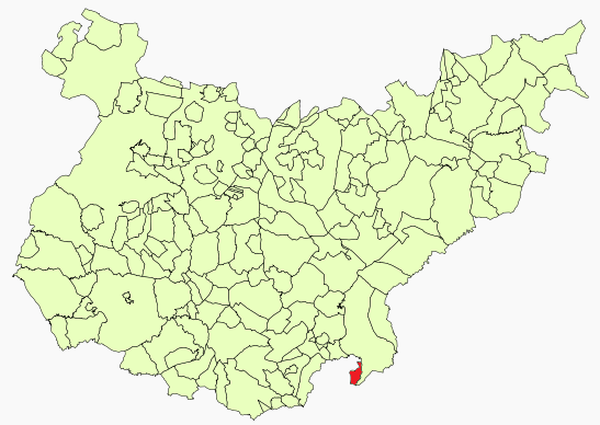 Malcocinado